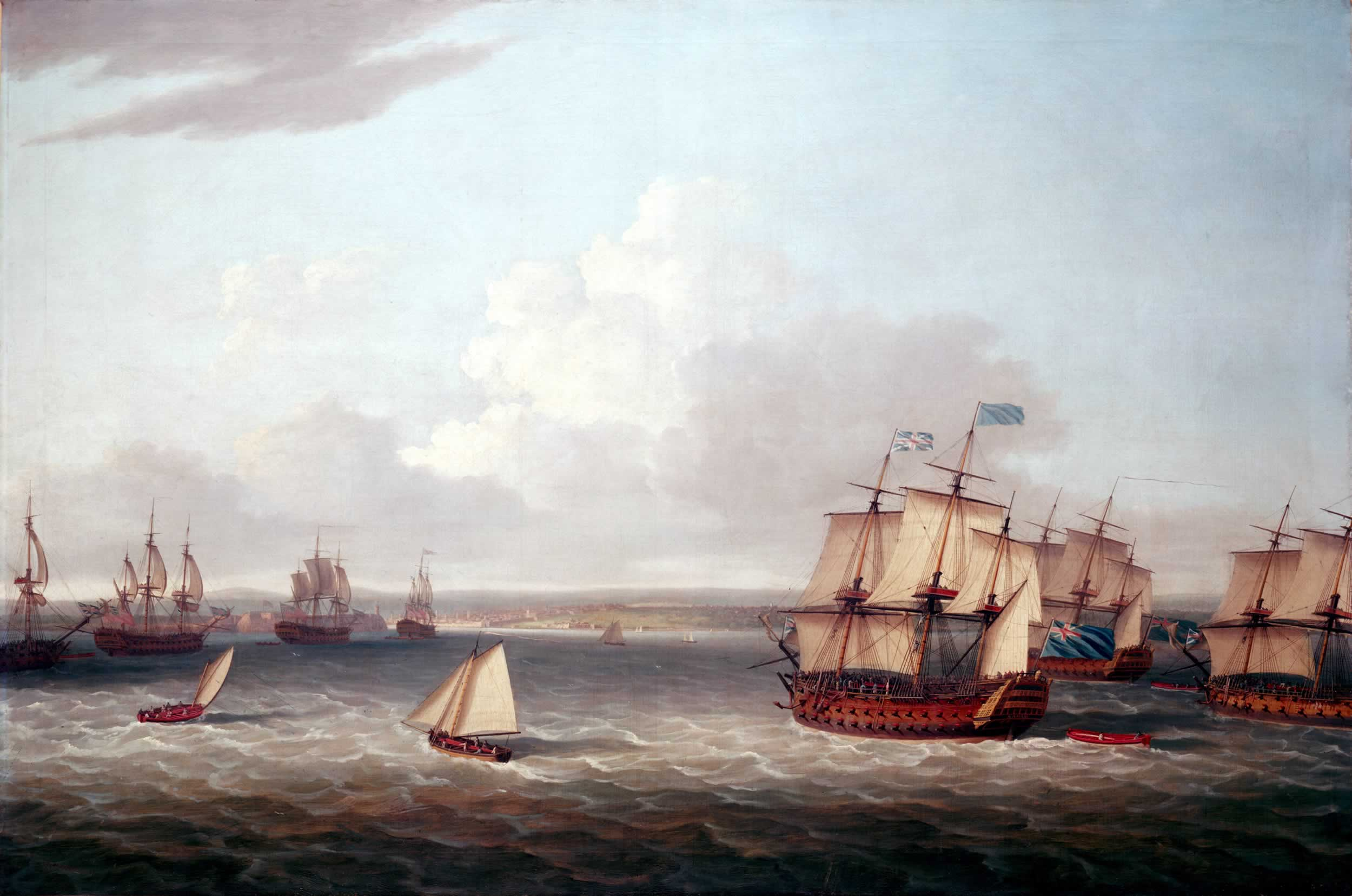 A depiction of an episode from the last major operation of the Seven Years War, 1756-63. It was part of England's offensive against Spain when she entered the war in support of France late in 1761. The British Government's response was immediately to plan large offensive amphibious operations against Spanish overseas possessions, particularly Havana, the capital of the western dominions and Manila, the capital of the eastern. Havana needed large forces for its capture and early in 1762 ships and troops were dispatched under Admiral Sir George Pocock and General the Earl of Albemarle. The force which descended on Cuba consisted of 22 ships of the line, four 50-gun ships, three 40s, a dozen frigates and a dozen sloops and bomb vessels. In addition there were troopships, storeships, and hospital ships. Pocock took this great fleet of about 180 sail through the dangerous Old Bahama Strait, from Jamaica, to take Havana by surprise. Havana, on Cuba's north coast, was guarded by the elevated Morro Castle which commanded both the entrance to its fine harbour, immediately to the west, and the town on the west side of the bay. The English fleet moved into Havana harbour once the obstructions had been cleared on 21 August. On the left of the picture, Commodore Augustus Keppel in the 'Valiant', is leading in his squadron first, an honour accorded him by Admiral Sir George Pocock. On the right Pocock's 'Namur', flying his flag as Admiral of the Blue, together with the Union flag and blue ensign, is shown following with the bulk of the fleet.